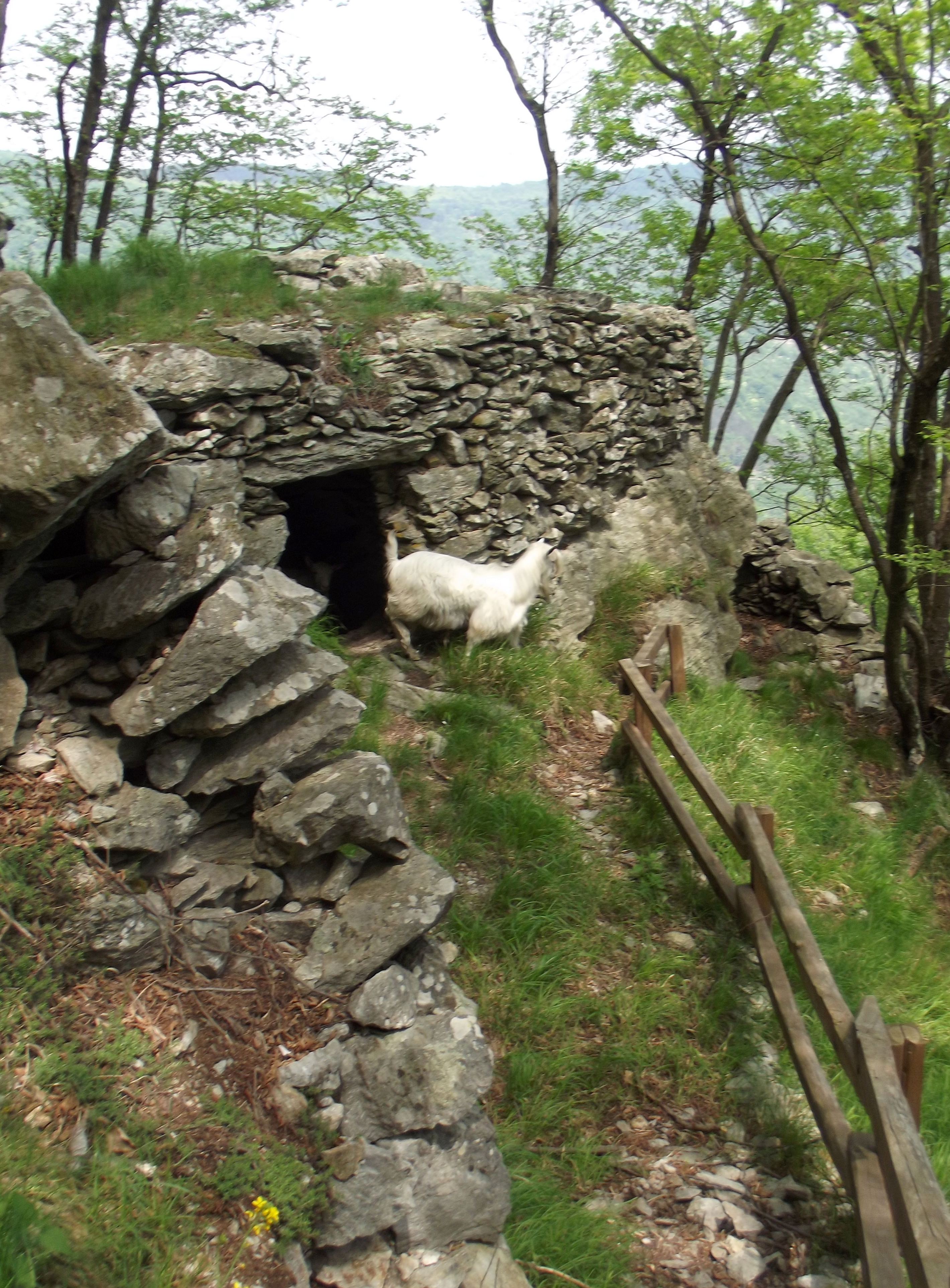 Old silver mine of Bric Gettina (Ligurian Prealps, SV, Italy)